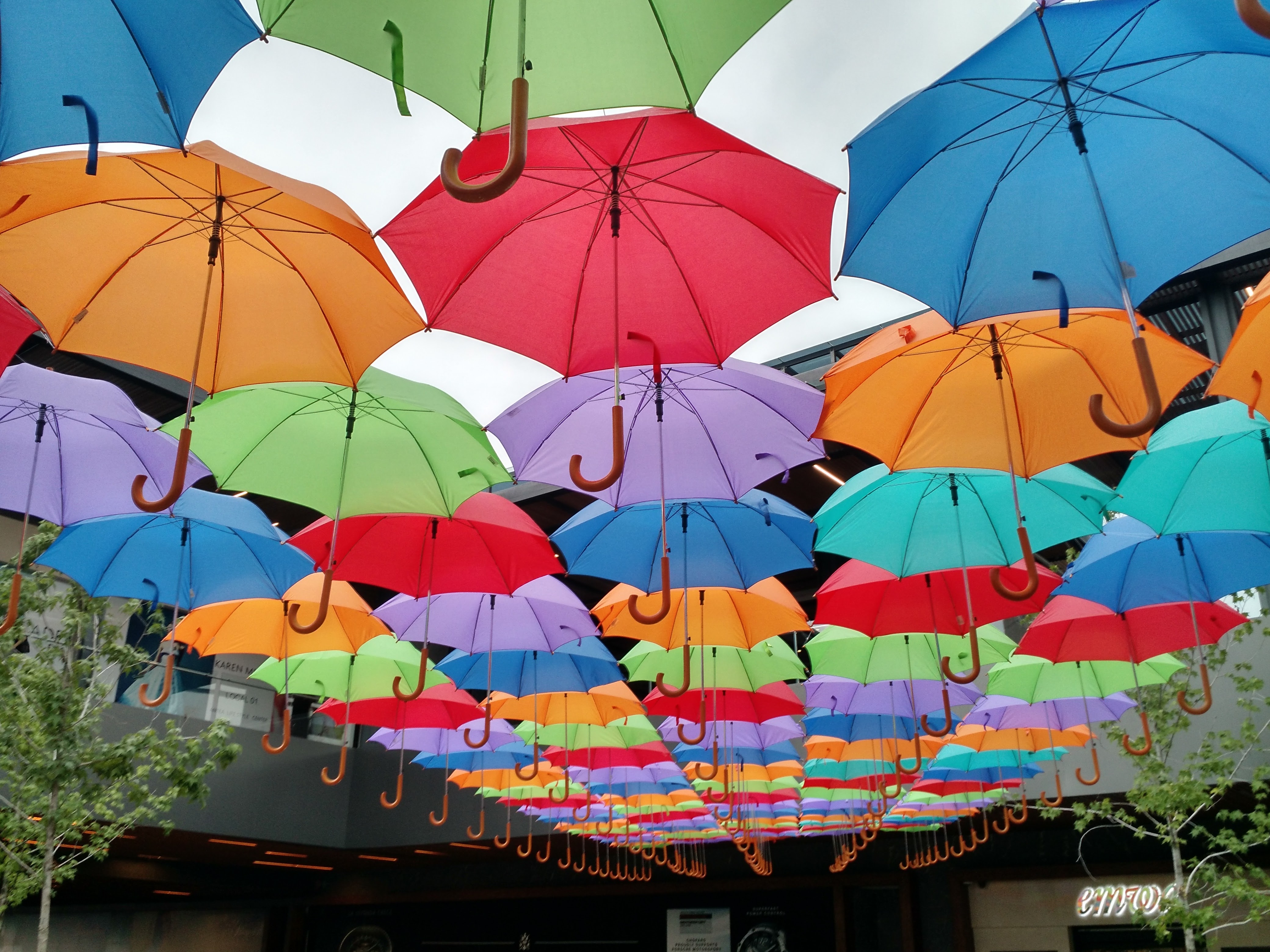 Umbrellas decorating Antea, as seen from the bottom